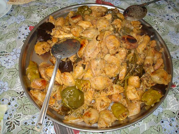 Kurdish dolma typically consist of many types of stuffed vegetables